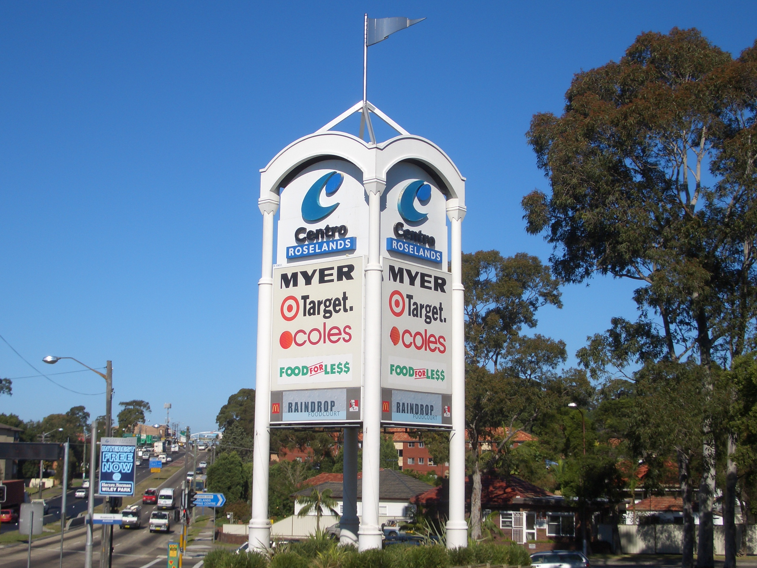 Roselands Centro Shopping Centre, King Georges Road